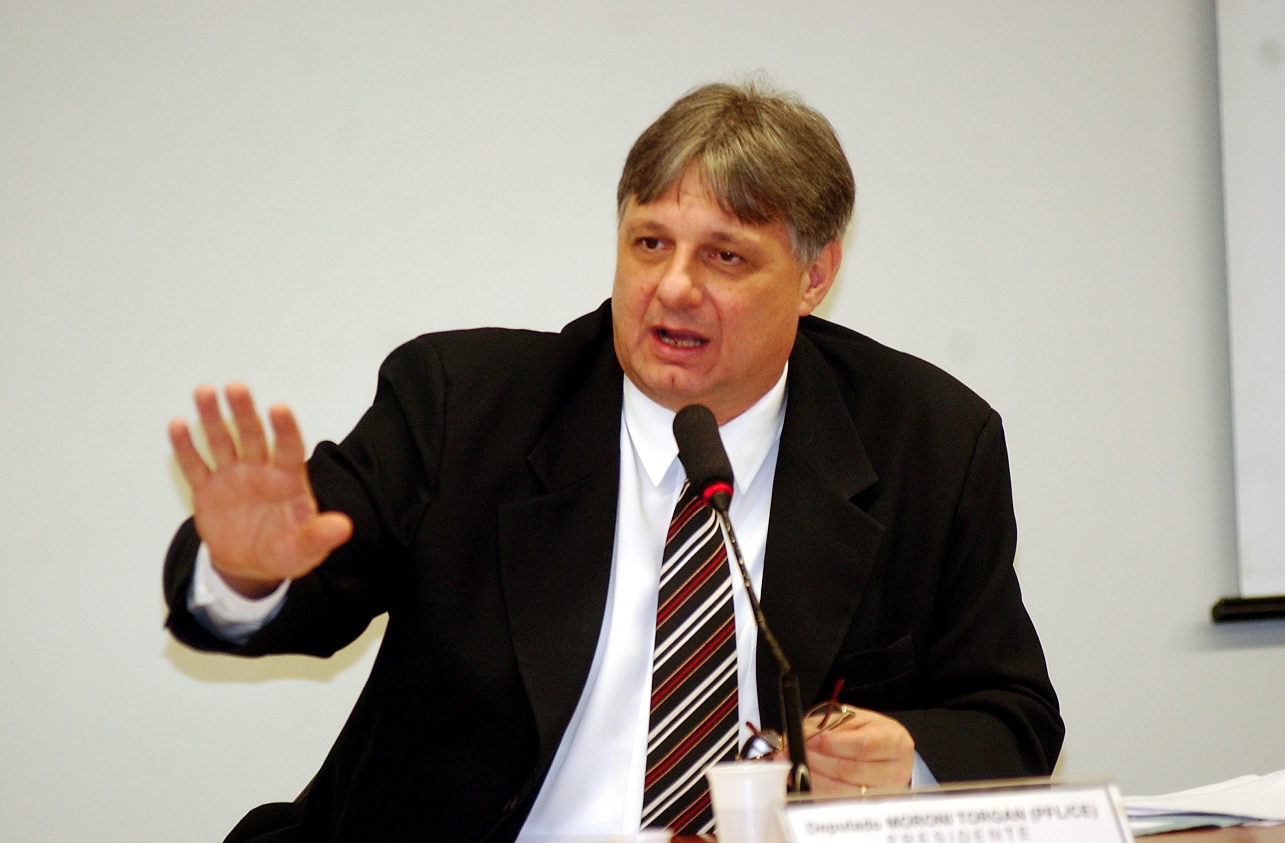 Brazilian congressman Moroni Torgan.